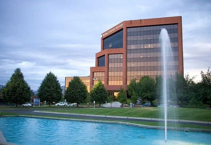 Western Governors University Headquarters